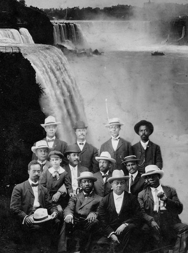 Niagara movement: meeting in Fort Erie, Canada, 1905. Top row (left to right): H. A. Thompson, Alonzo F. Herndon, John Hope, James R. L. Diggs (?). Second row (left to right): Frederick McGhee, Norris B. Herndon (boy), J. Max Barber, W. E. B. Du Bois, Robert Bonner. Bottom row (left to right): Henry L. Bailey, Clement G. Morgan, W. H. H. Hart, B. S. Smith. [The portrait element of this image was taken in a studio and added to the scenery of Niagara Falls, N.Y., as evidenced by the sharp, angular lines left from the photographer cutting around the subjects.]